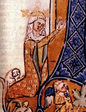 Elisabeth Ryksa of Poland